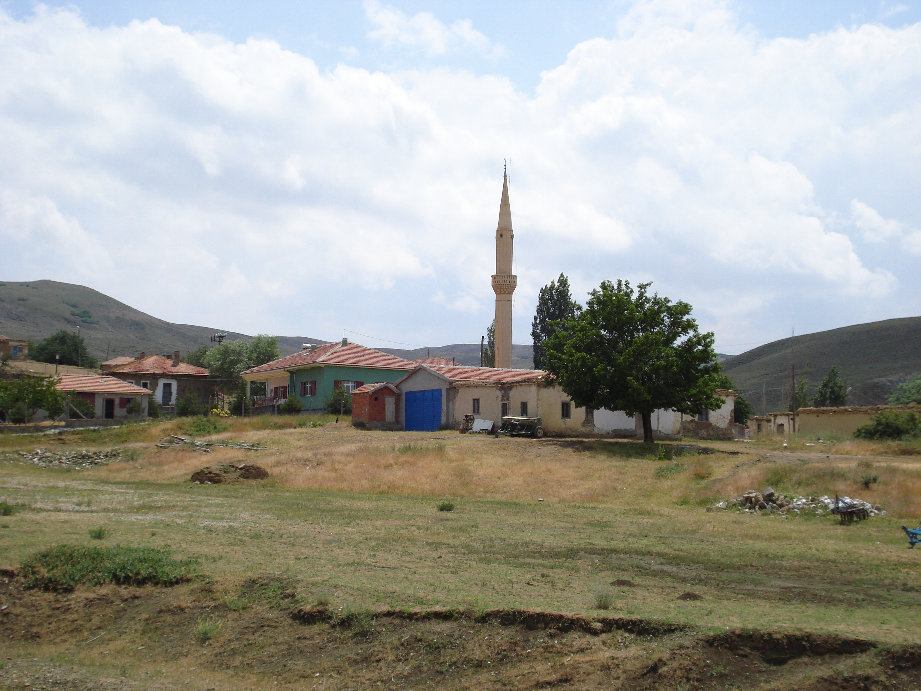 A view of Odunbogazi, which is a village of Sereflikochisar, Ankara.